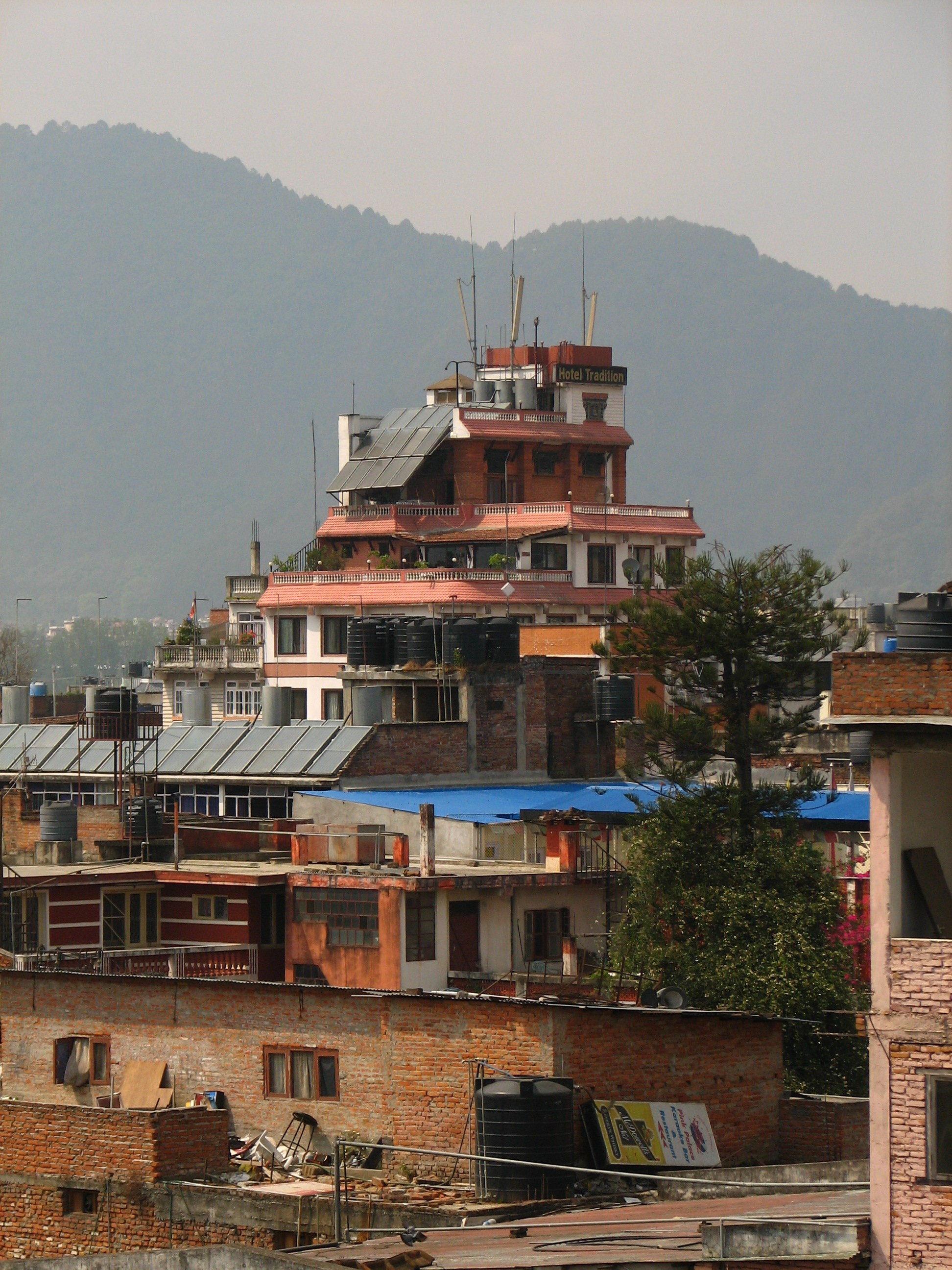 The other view of the Thamel district of Kathmandu: the rooftops. Above street level, the houses, shops and restaurants formed a complex 3-D landscape. Many restaurants would have a hidden patio or even more than one on different levels, looking out at unique vantage points.